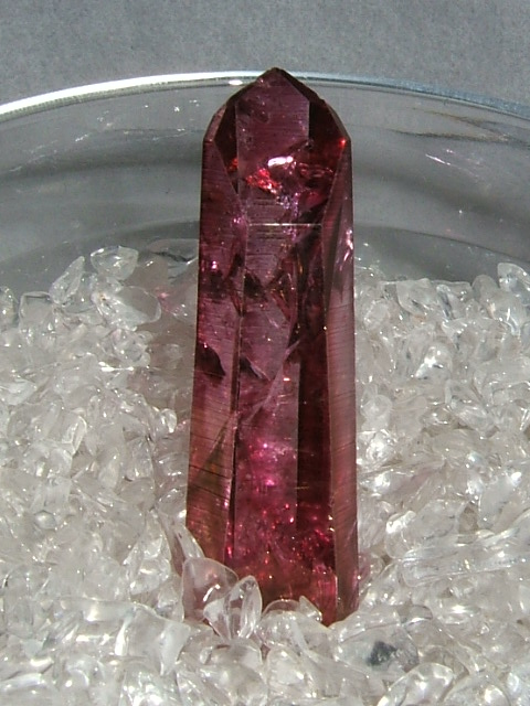 roseaura point